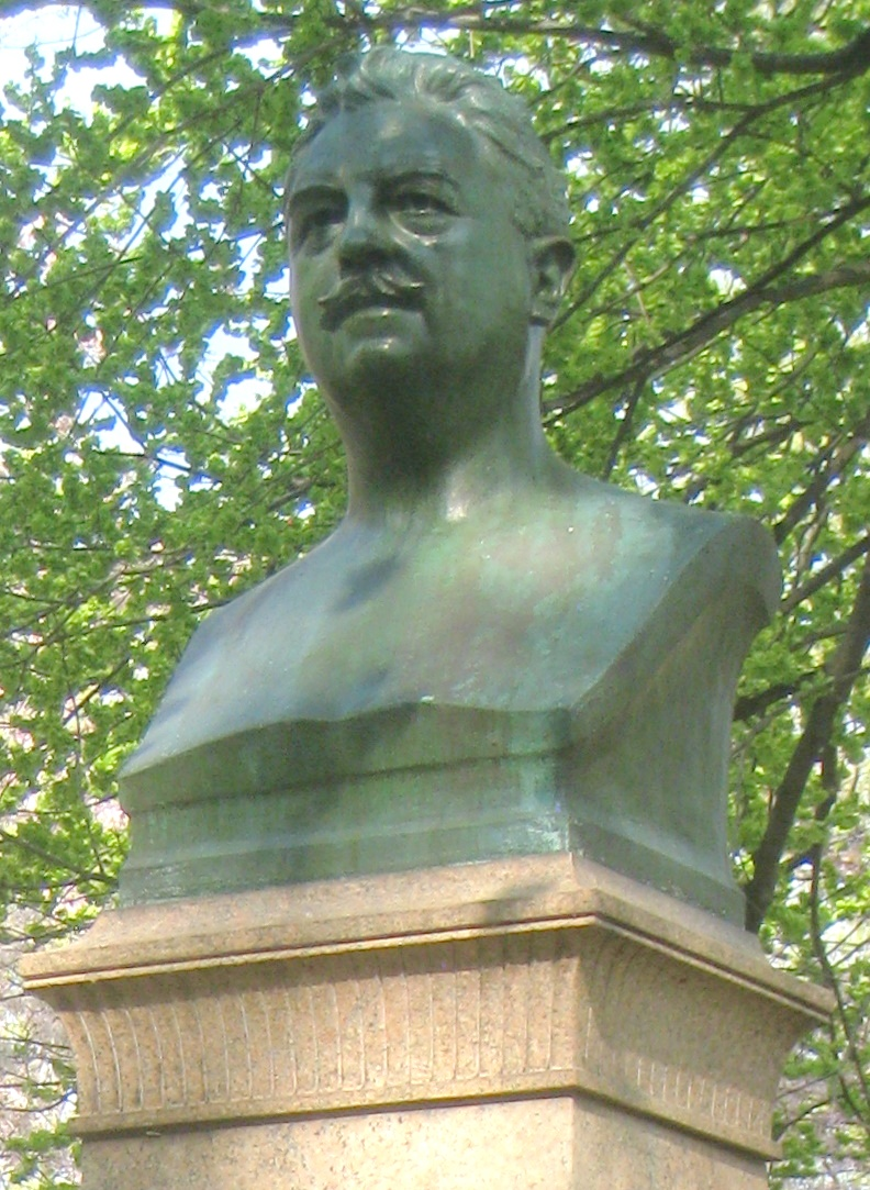 Victor Herbert memorial by Edmund Thomas Quinn (1868-1929), Central Park, New York City, New York, USA.